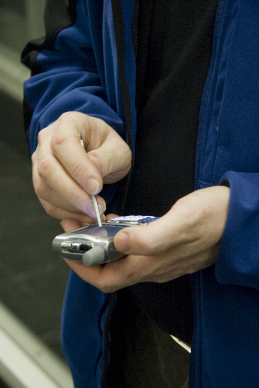 Person with PDA handheld device.